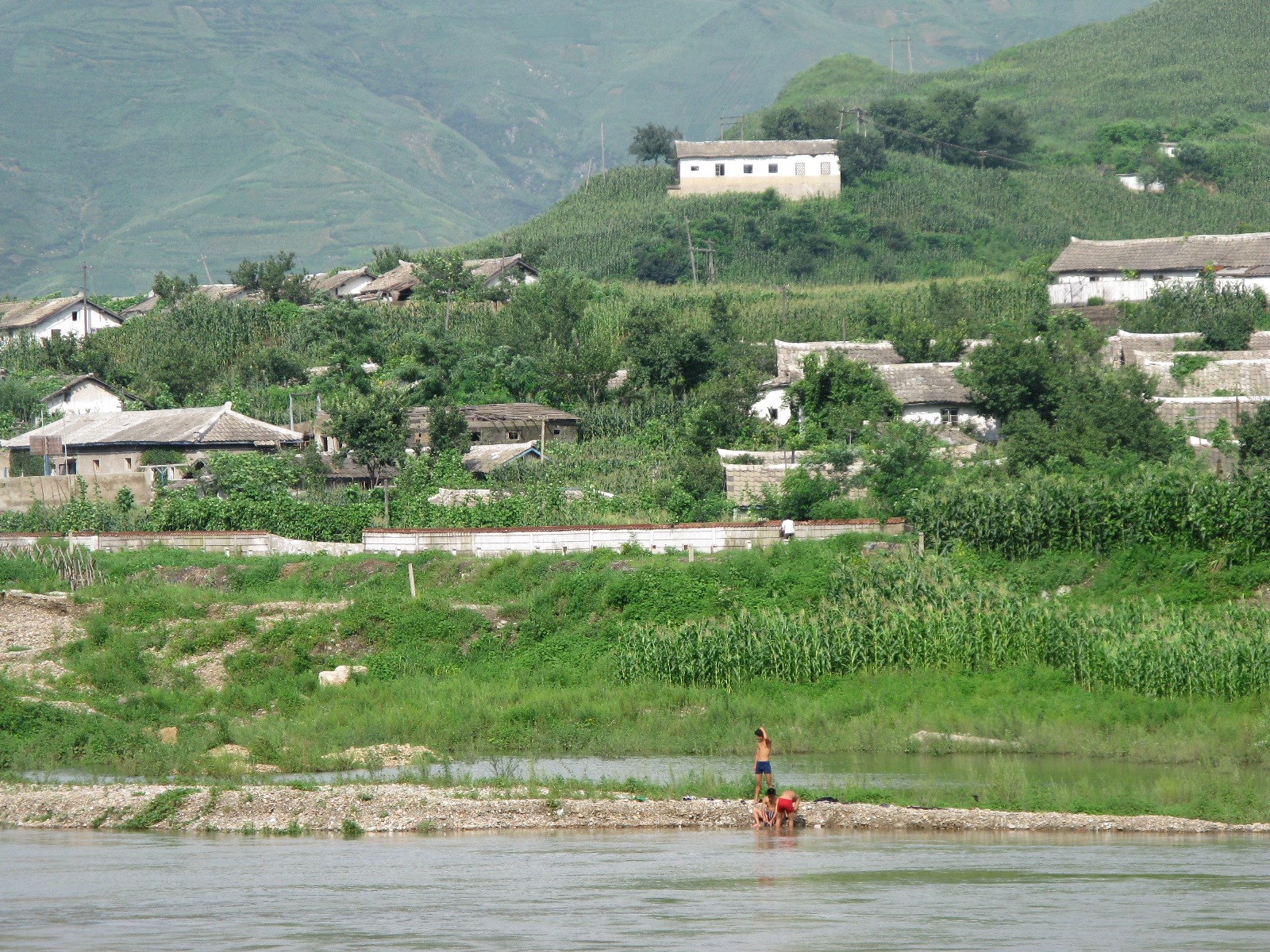 Washing in the river